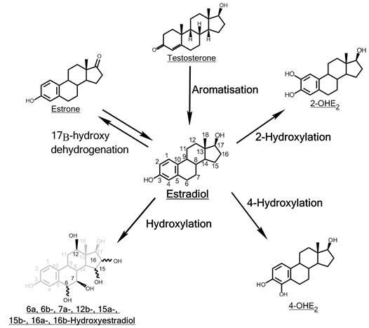 CYP-mediated biosynthesis and metabolism of estradiol.